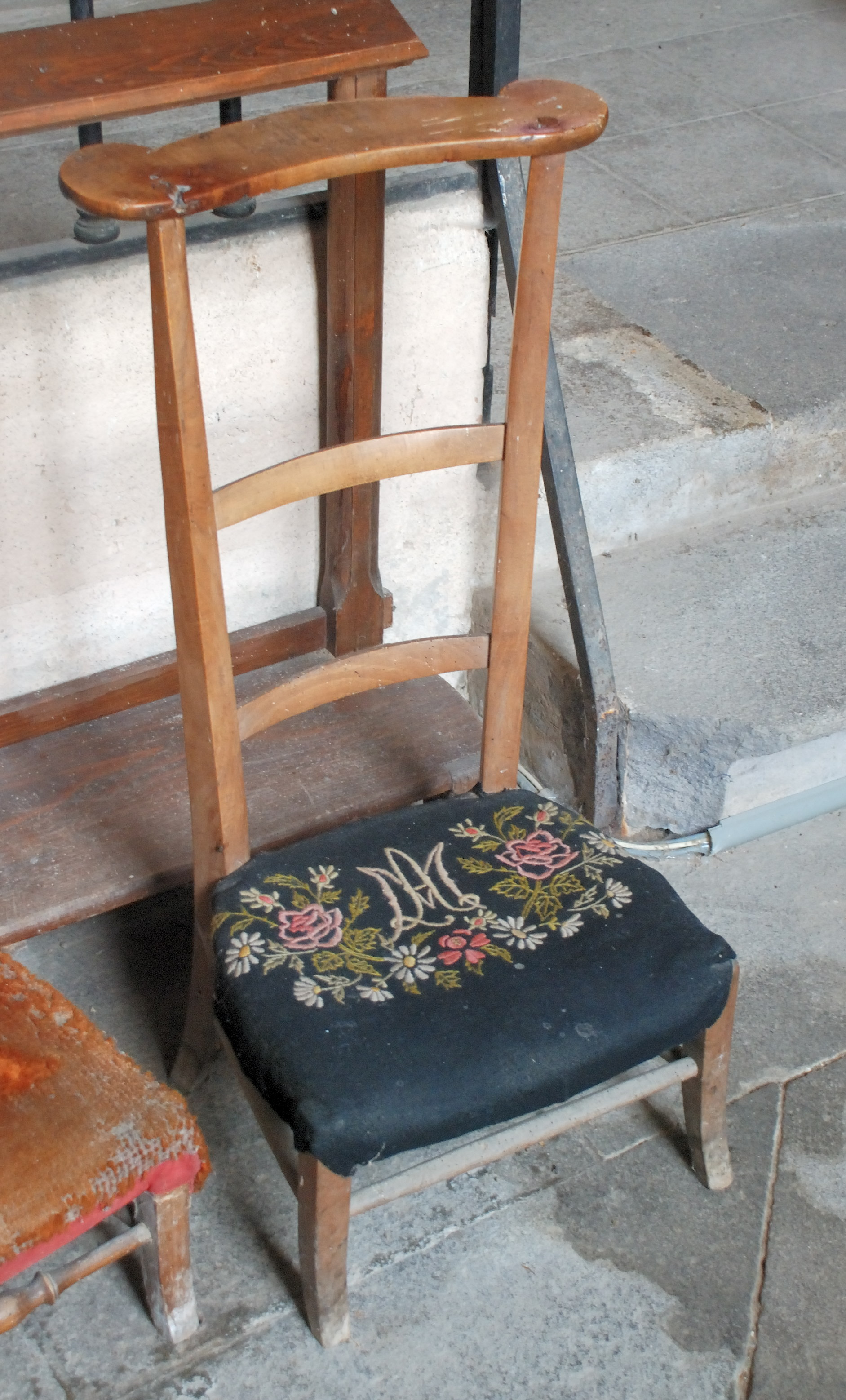 Prie-dieu (Sermentizon, Puy-de-Dôme, France).